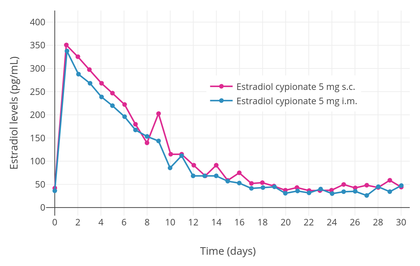 Estradiol levels (pg/mL) following a single intramuscular injection in the gluteus region or subcutaneous injection in the upper arm of 5 mg estradiol cypionate in an aqueous suspension in 15 premenopausal women each. The measurements were performed using a "solid-phase competitive chemiluminescent enzyme immunoassay on the Immulite analyzer". The injections were administered as a combined injectable contraceptive formulated in combination with 25 mg medroxyprogesterone acetate.